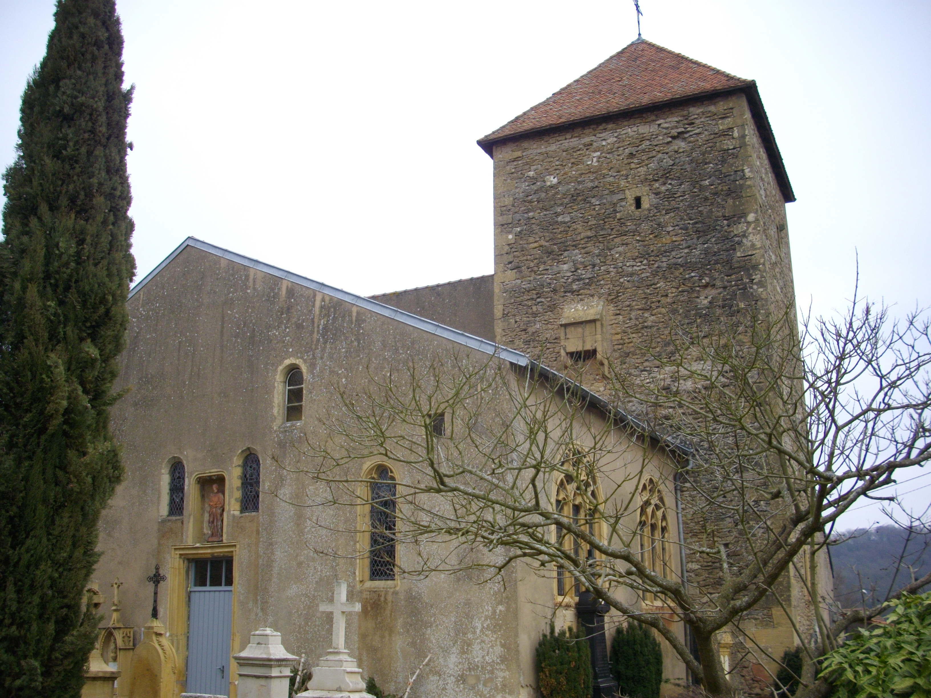 Saint Gorgonius church of Lessy (Moselle, France) .